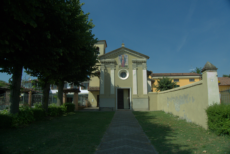 Sanctuary "Madonna della Neve" in Bordolano, province of Cremona (Italy)